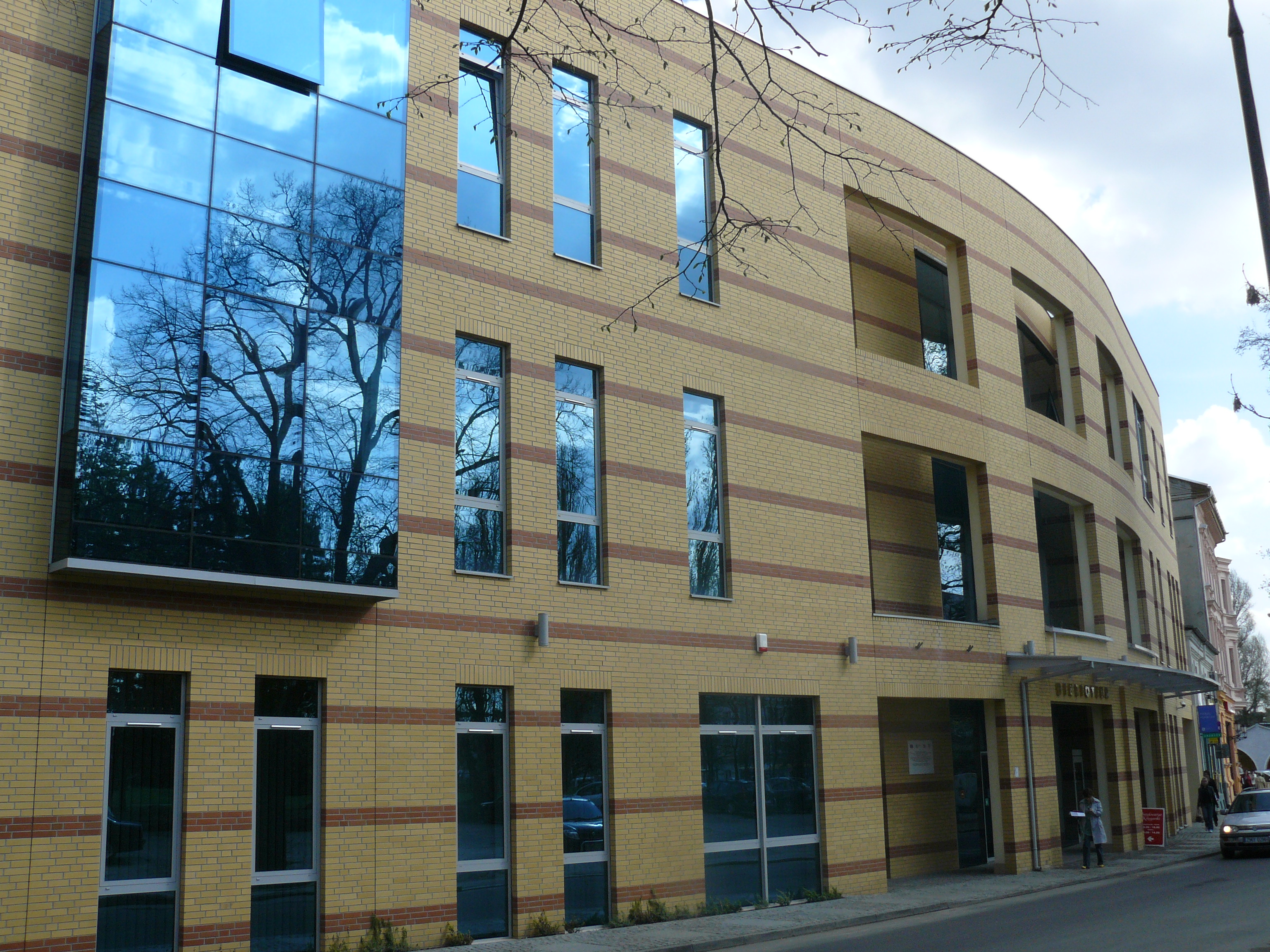 WiMBP Gorzów